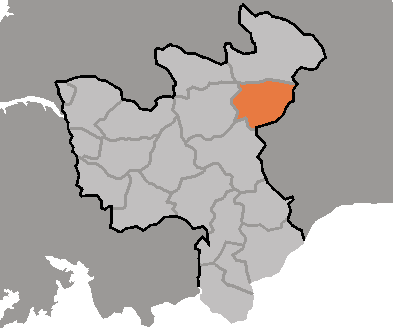 Map of Koksan, Hwanghae-pukto, DPRK, 2006